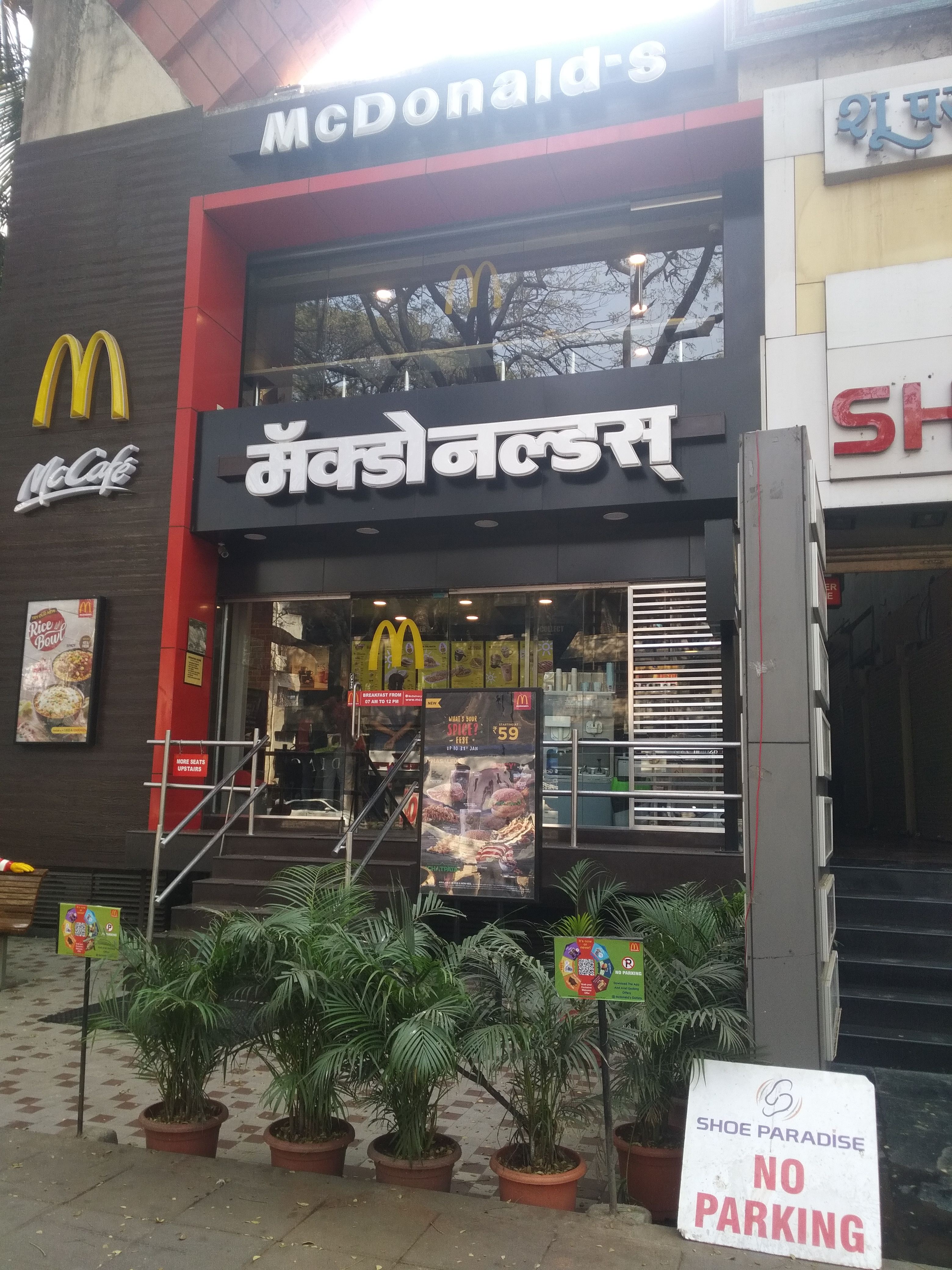 McDonald's store